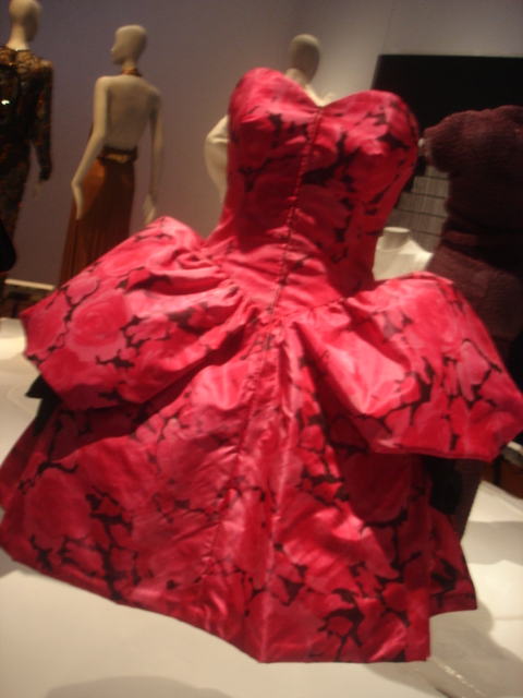 Christian Lacroix designer gown in Florence, Italy museum display in 2007